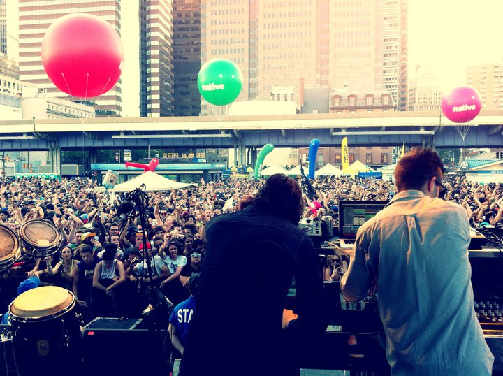 Backstage while dubstep producers Zeds Dead perofrm at the record label Mad Decent's annual Block Party, which hits the cities of LA, NYC, Chicago, and Philly.